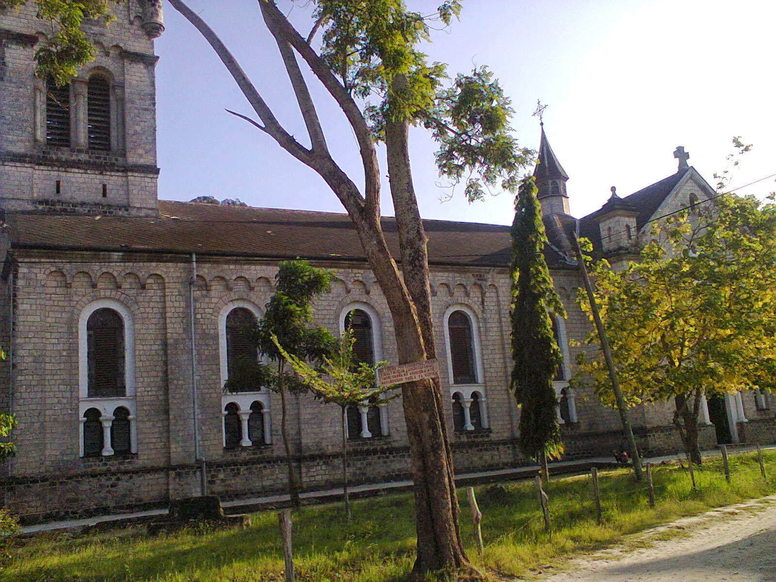 This is an image with the theme "Play" from: Tanzania